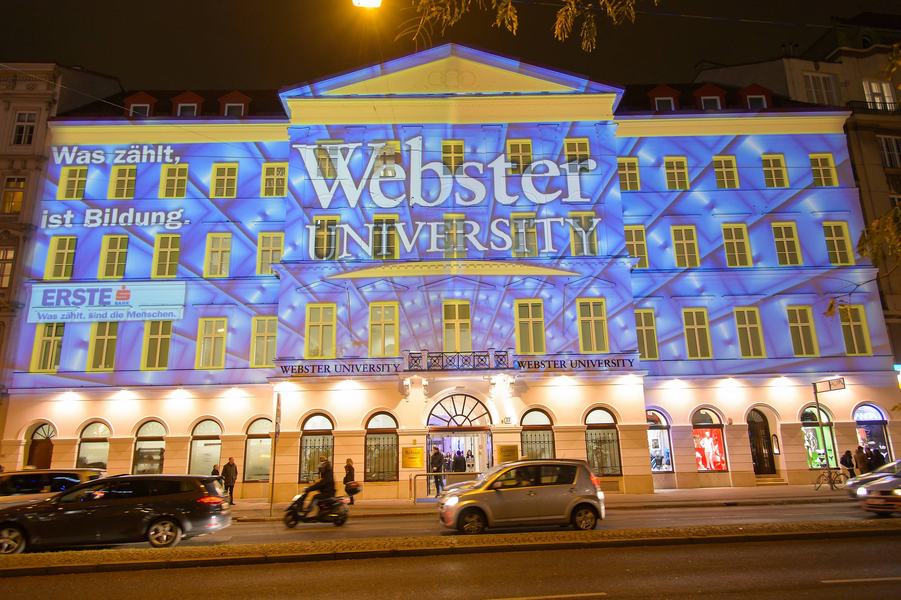 Grand Opening Webster Vienna Private University, 29.10.2014